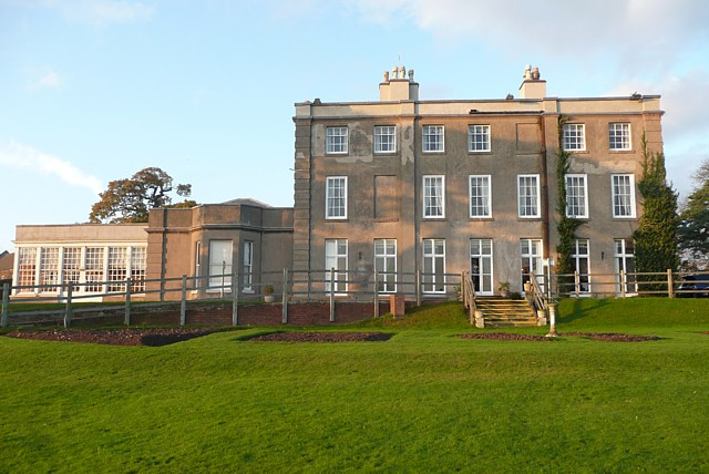 The south side of Wychnor Hall